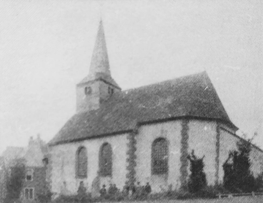 Former church of St. Katharina in Scheuern (Saarland, Germany); built in 1729